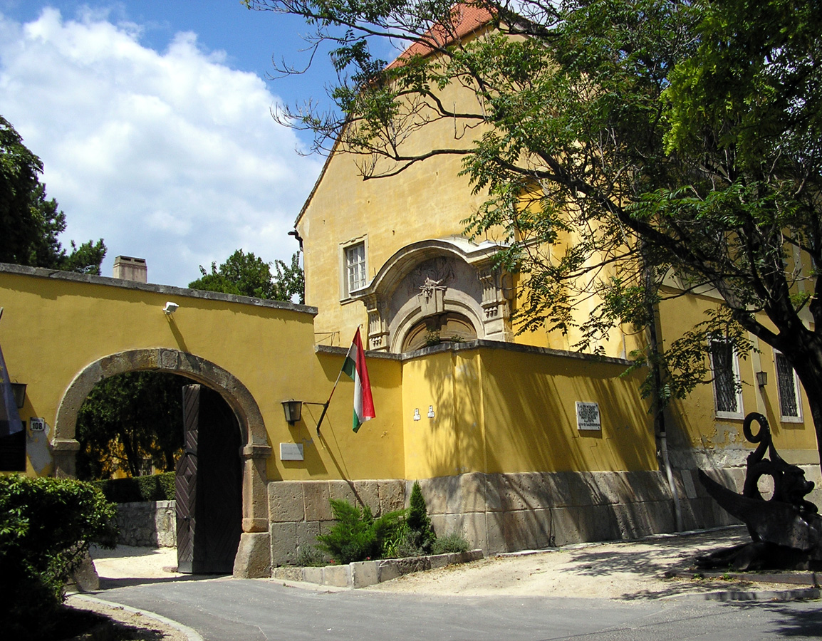 Kiscell Museum, Budapest. The entrance.